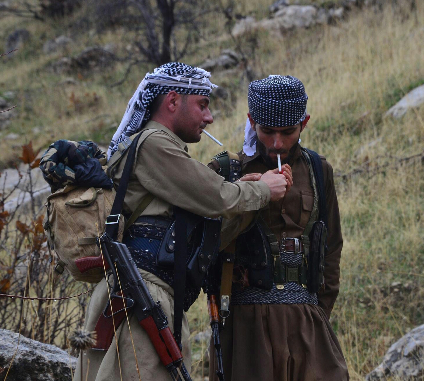 Fighters of the Komala Party of Iranian Kurdistan in 2014.